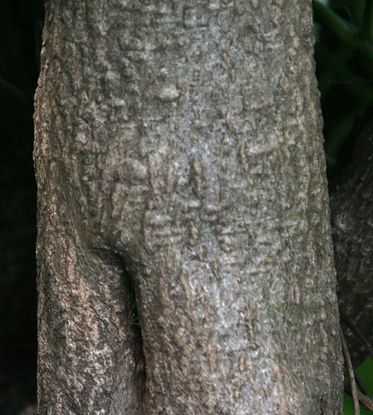 Yellow Oleander Thevetia peruviana in Kolkata, West Bengal, India.